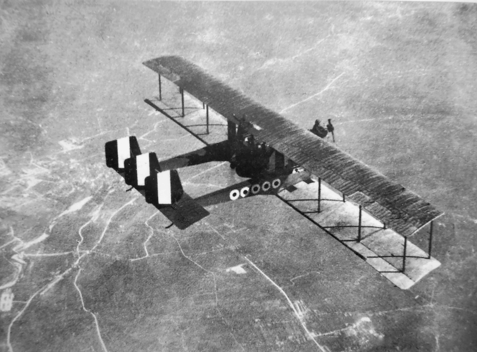 Italian heavy bomber Caproni Ca.3 during flight